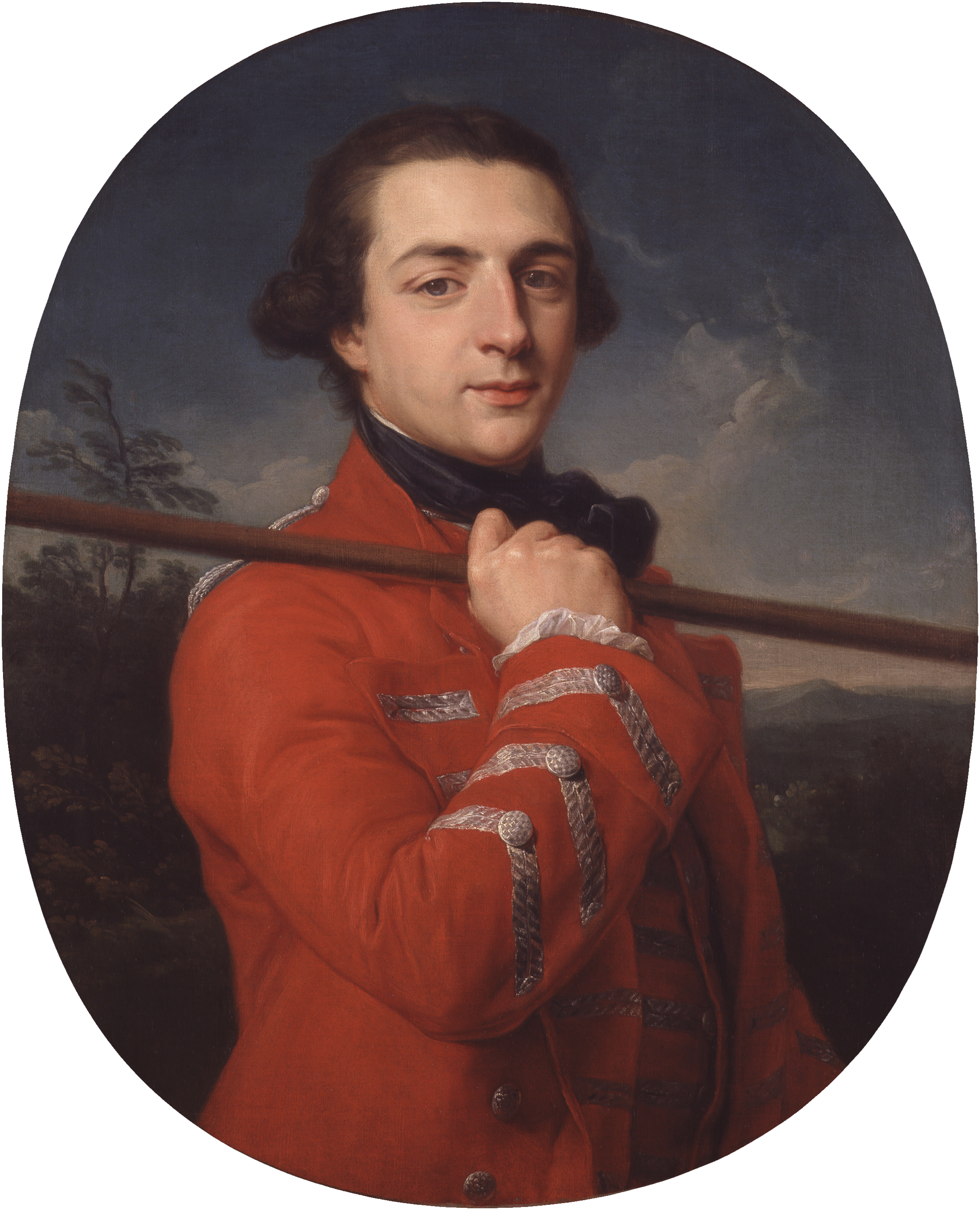 Portrait of Augustus FitzRoy (1735–1811)